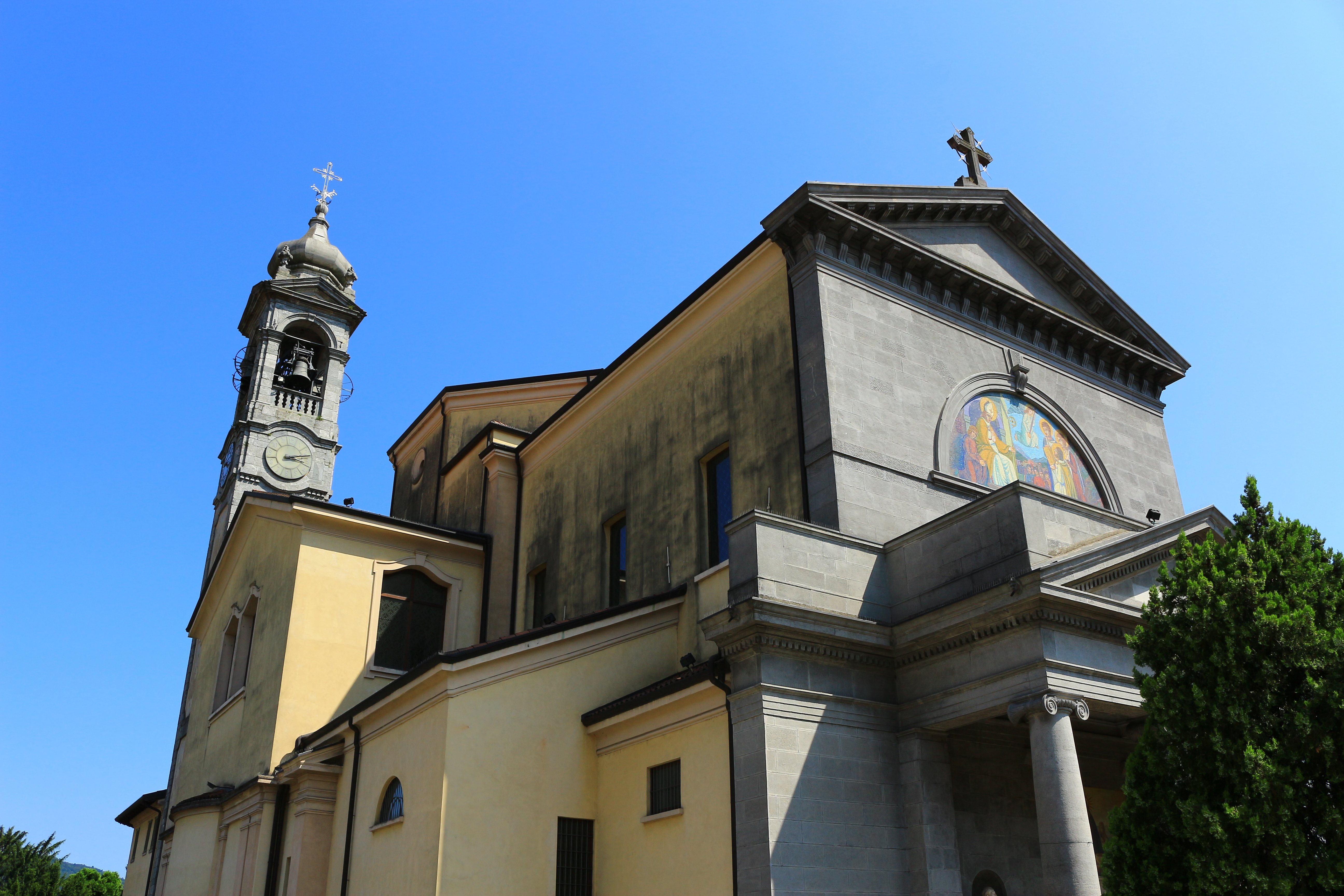 Chiesa Parrocchiale di Brivio Church of Brivio (Italy) August 2018